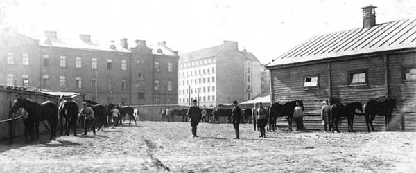 Riding academy Keskustalli in Helsinki Finland, 1930's